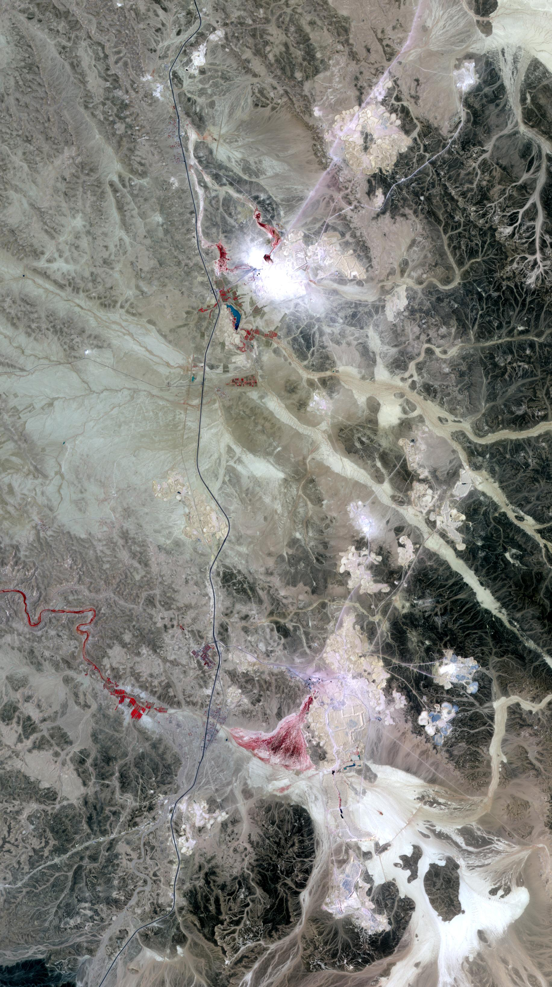 The Advanced Spaceborne Thermal Emission and Reflection Radiometer (ASTER) on NASA’s Terra satellite captured this image of a Jordanian phosphate mine. In the lower part of the image, just left of center, a network of rectangles indicates part of the mining operation. In the east are clusters of almost perfectly round shapes, some of them colored electric blue. These blue pools may hold shallow water and/or water-soaked salts. Phosphate mining often involves a floatation process in which phosphate particles float on the surface of water. A close look at the top middle part of the image shows a complex of round shapes that may have been used in earlier operations. In the left part of the image, the spray of red indicates vegetation. Although the vegetation appears bright in this image, it is probably sparse. The large off-white shape near the bottom of the image indicates a dried-up riverbed, and it follows a meandering path from the hills in the east, where the riverbed is darker in color. As it changed course, the now-dry river once sported a mesh of braided streams that left their own dry beds near the bottom of the image. The current mining operation probably takes advantage of phosphate-rich rocks residing in this riverbed.